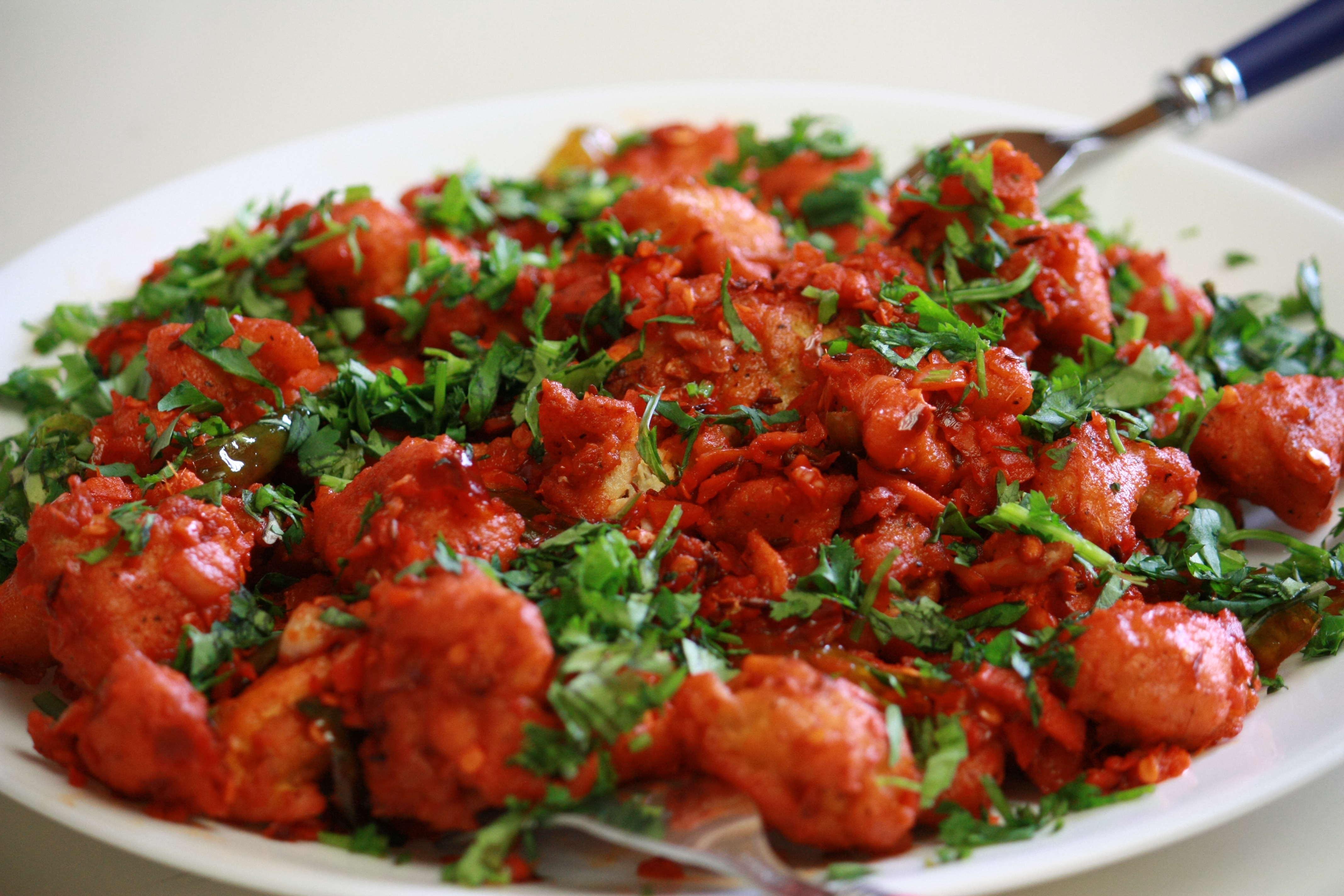 Chicken 65 (Garnished)